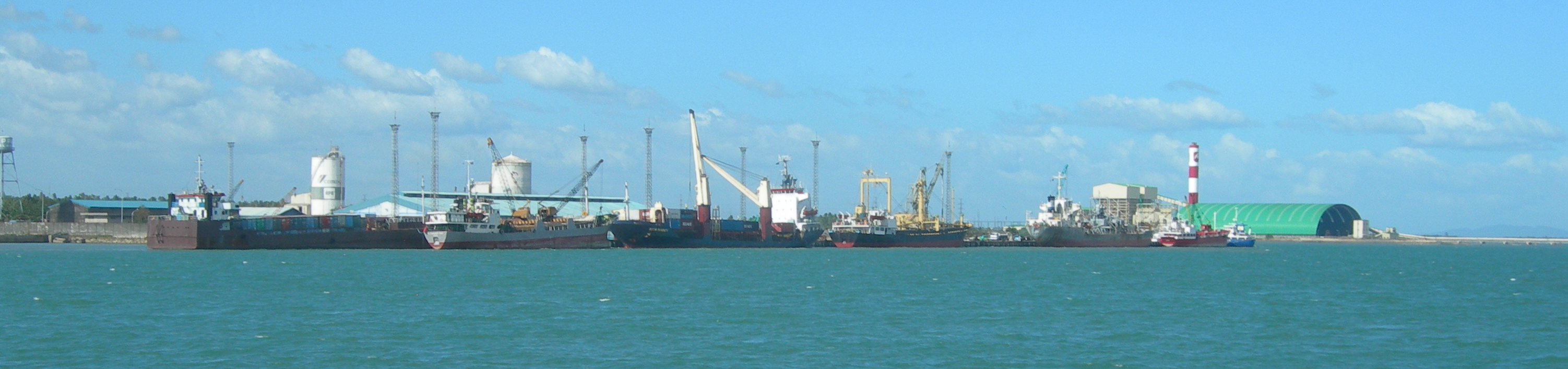 International container port, Port of Iloilo, Iloilo City, the Philippines